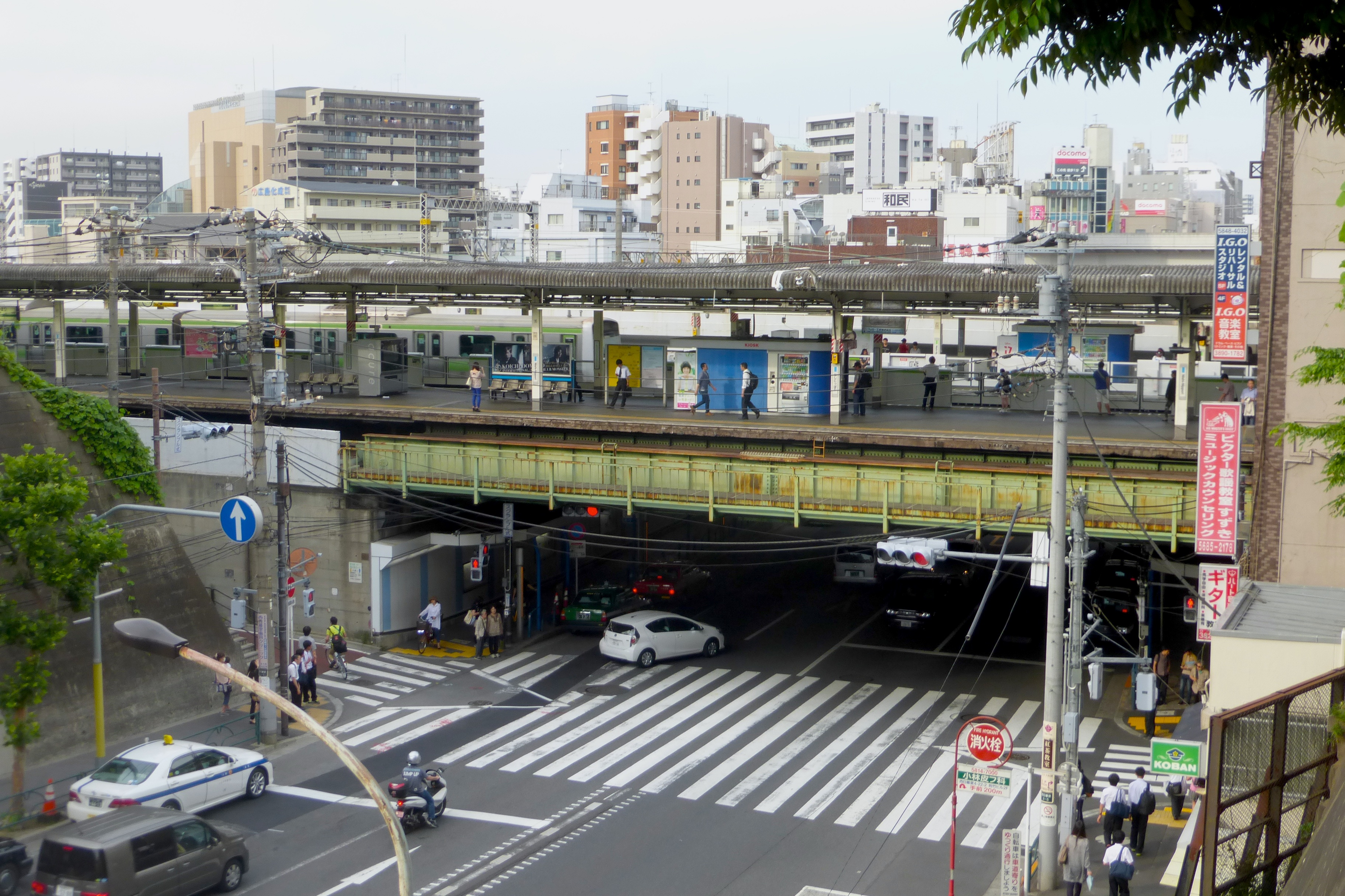 The JR East platforms of Nishi-Nippori Station viewed from the west side